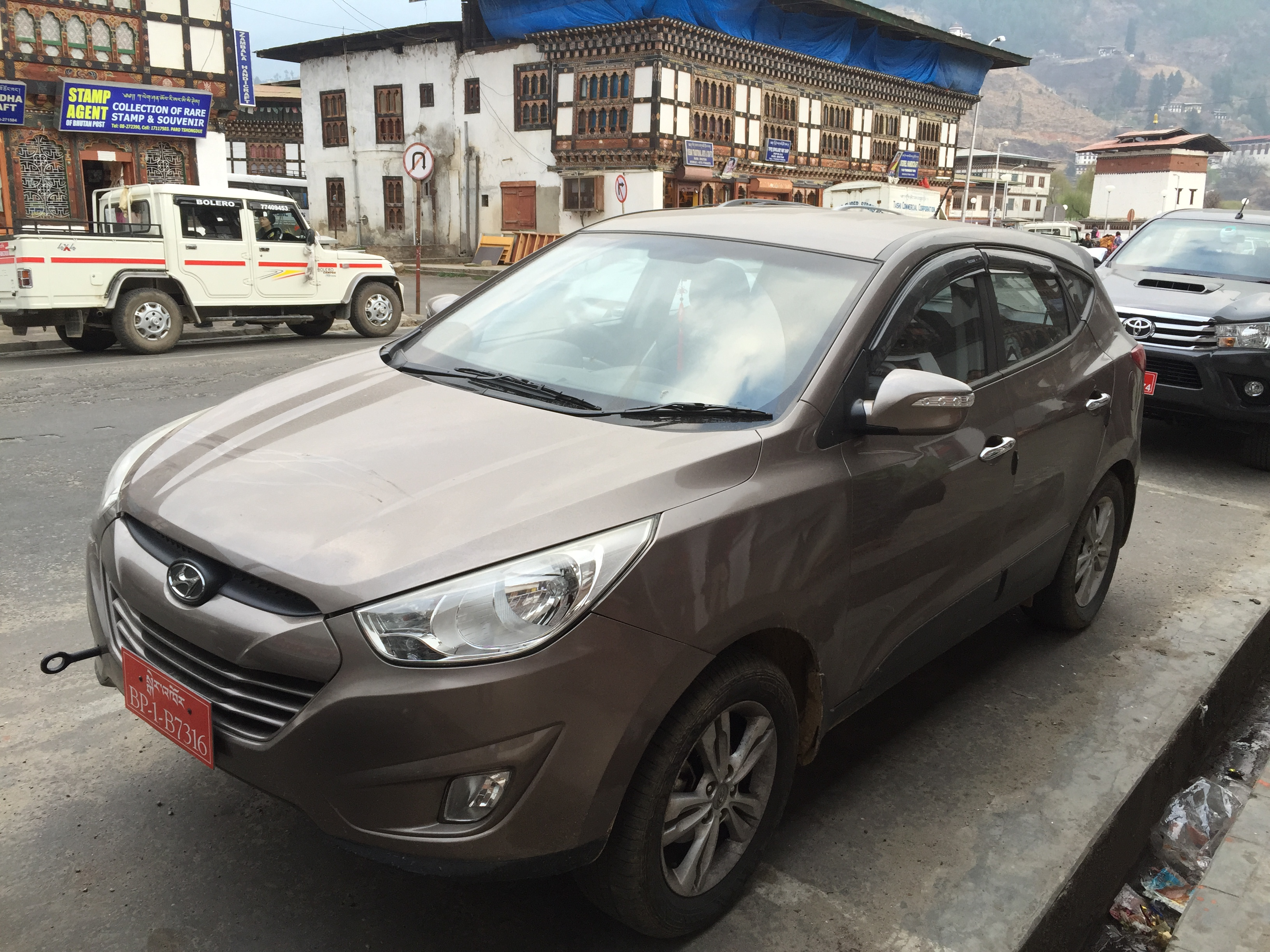 A Hyundai Tucson parked in Paro town.